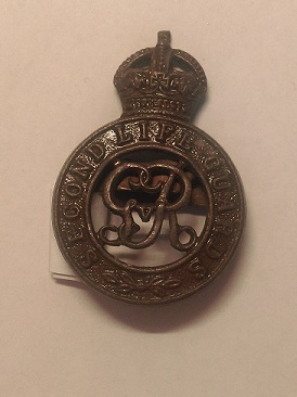 Photo of 2nd Regiment of Life Guards Cap Badge from personal collection